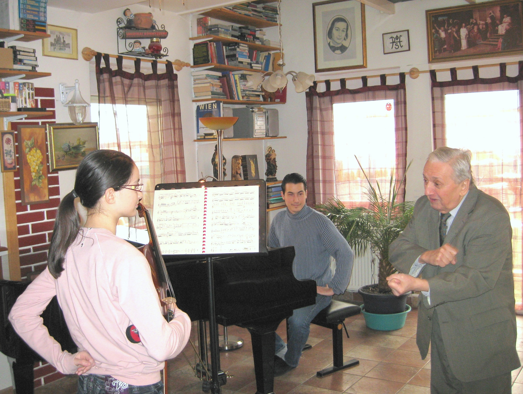 Maestro Szokolay teaching the Huszti-Duo Vienna in Parndorf; he wrote the "pastorale misterioso e giubiloso" for the duo.